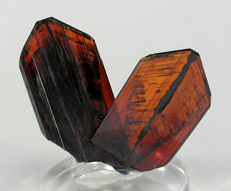 Brookite Locality: Kharan, Balochistan (Baluchistan), Pakistan (Locality at ) Size: thumbnail, 2.5 x 2.0 x 0.4 cm Brookite OK, ok, so the stuff is common now after a HUGE find the last 2 years in the Pakistani mountains...but common or not in quantity, specimens like THIS superb thumbnail are certainly NOT readily seen or availaable. This pristine piece has a great dramatic splay t it that gives it a good 3-dimensionality for the size. The zoning adds more interest to it, and it is pristine and complete!